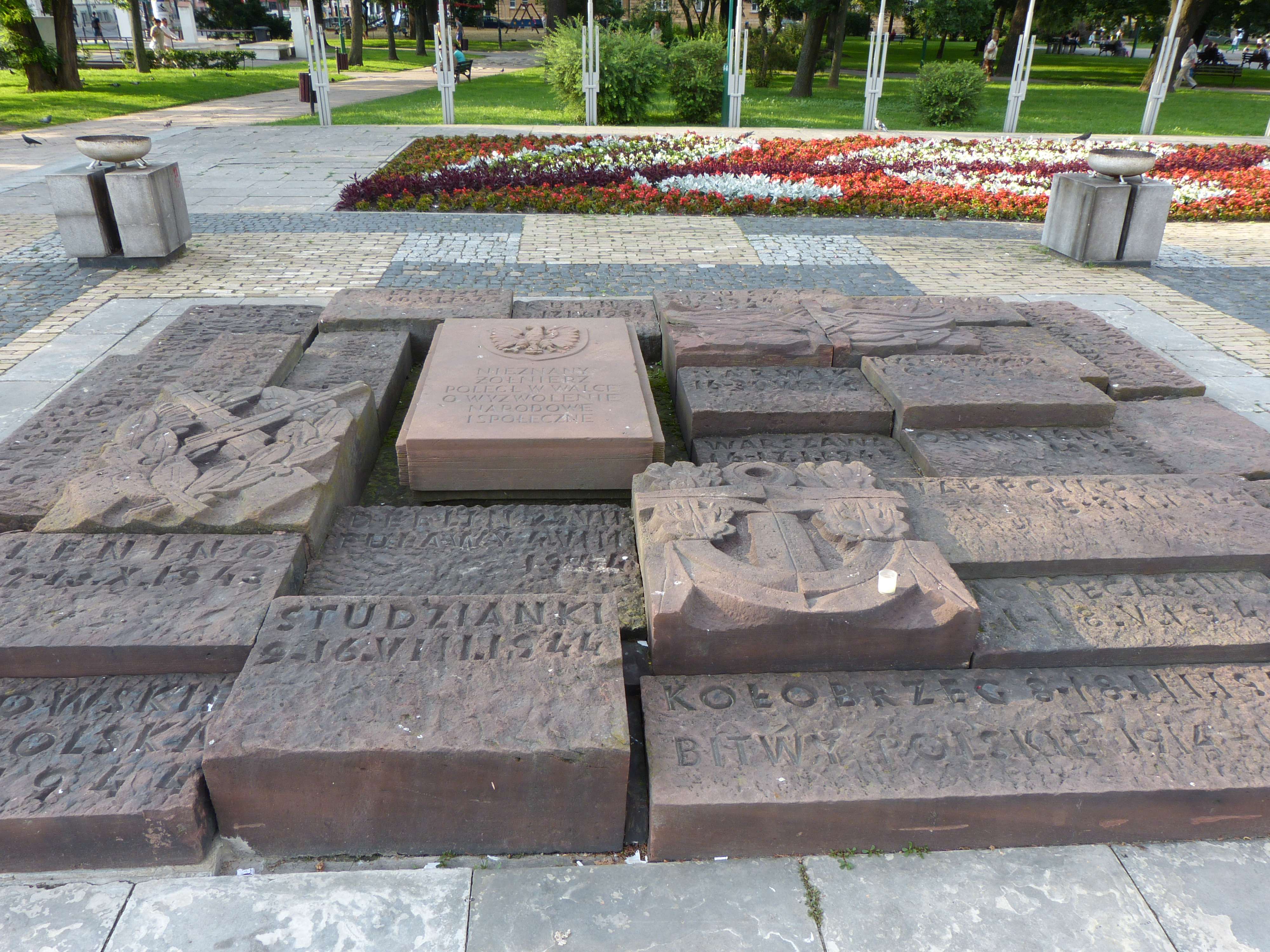 Tomb of Unknown Soldier in Lublin, Poland